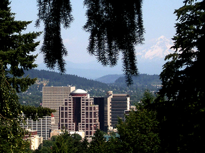 A view of downtown Portland, Oregon centered on the distinctively domed 1000 Broadway building. Mt. Hood rises above the skyline.